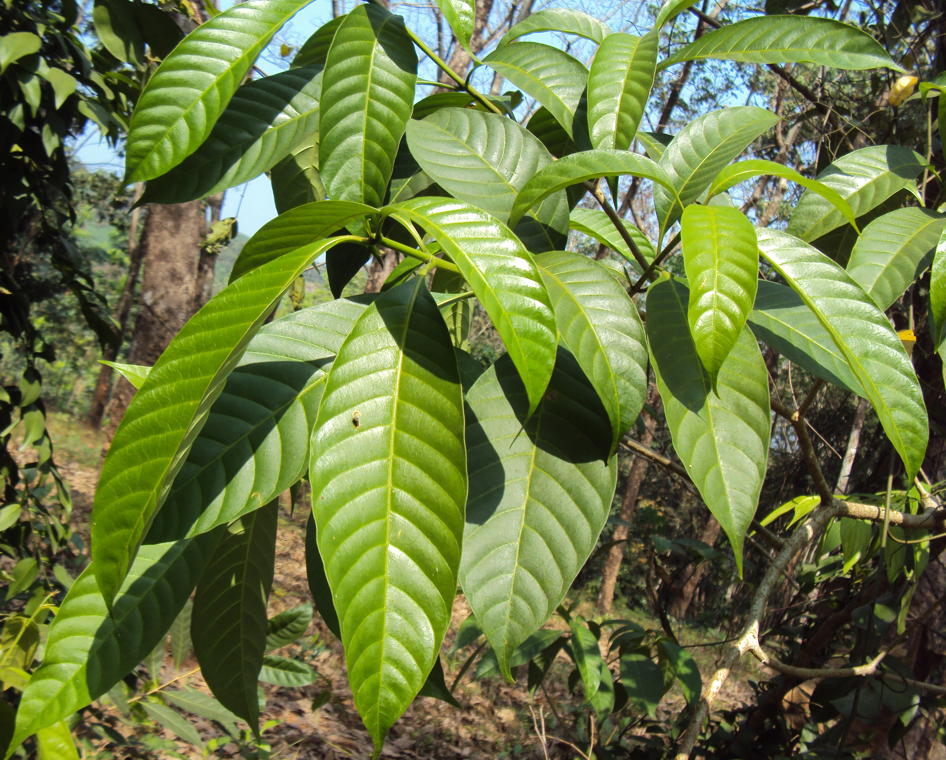 Tabernaemontana alternifolia